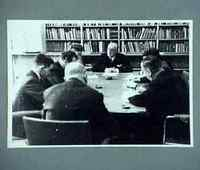 Nicolaas Posthumus (1880-1960) at a press conference in Nov. 1936 about stolen Trotsky documents in Paris